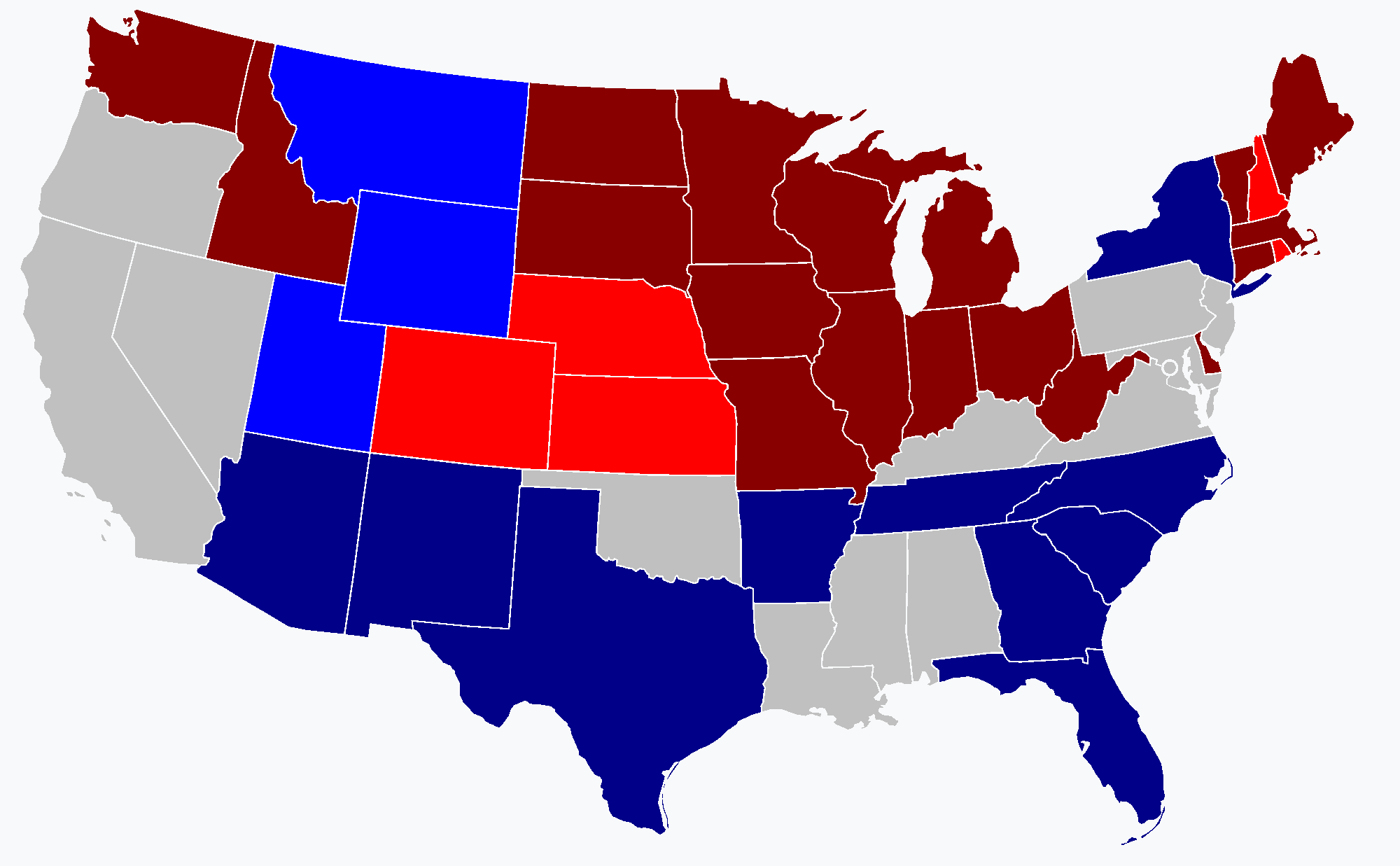 A map showing the results of the 1924 United States Gubernatorial elections